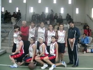 Universidad de Chile, a Basketball team for girls, Santiago de Chile.